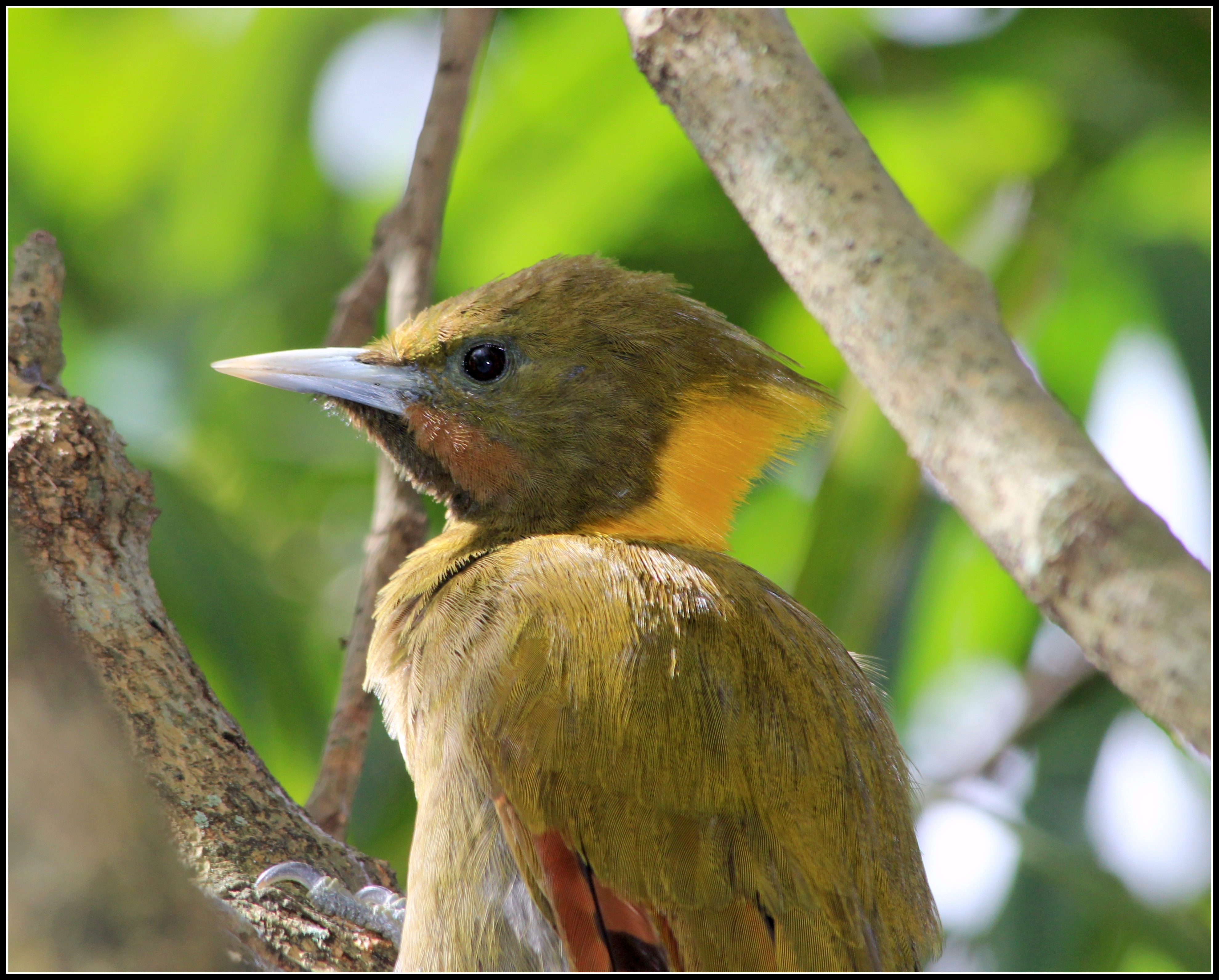 Greater Yellow-naped Woodpecker (Picus flavinucha)